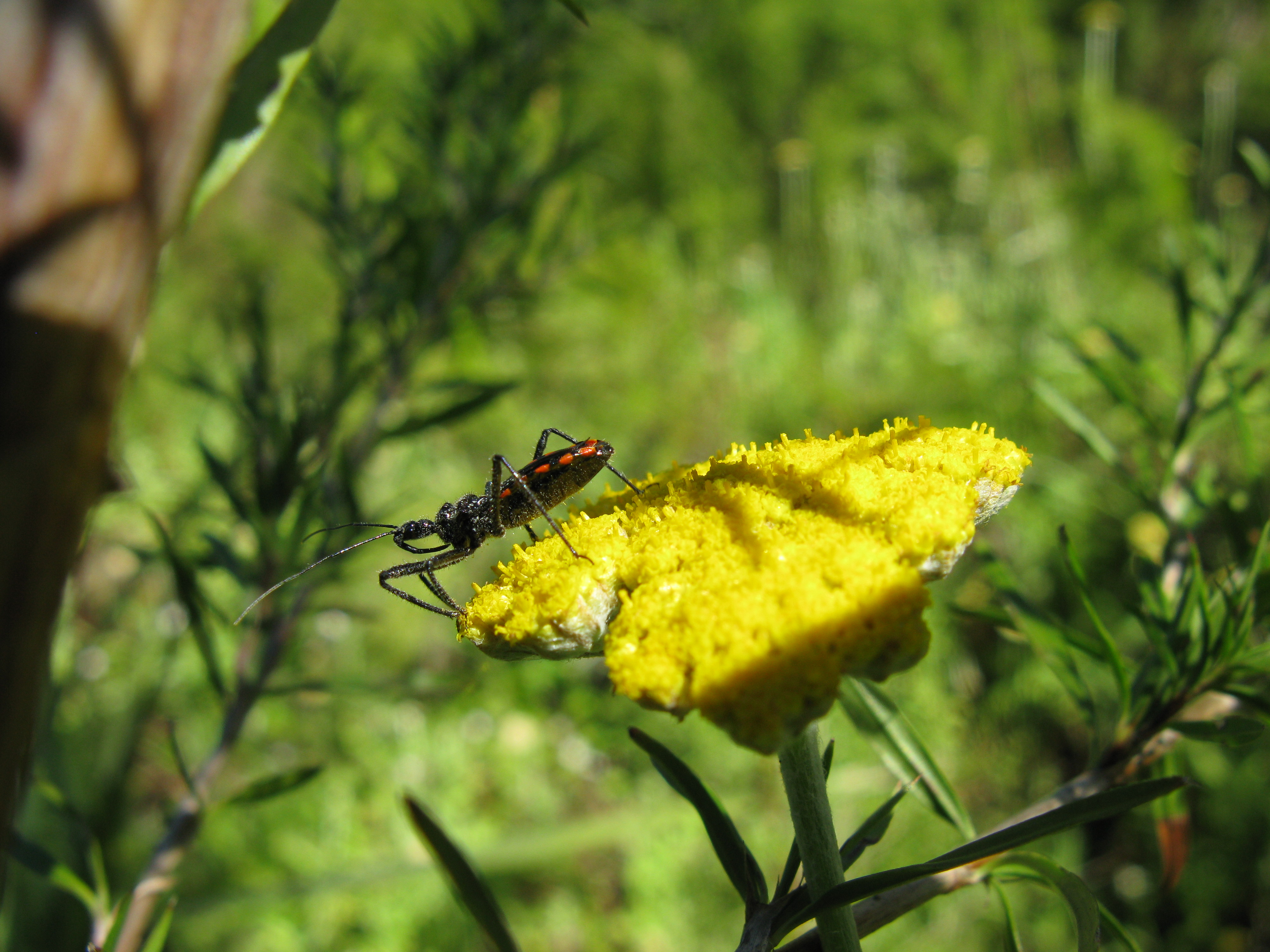 A typical assassin bug, atypically colourful, with an atypically vicious bite if handled carelessly. Inhabits flowers mostly, waiting for pollinators.